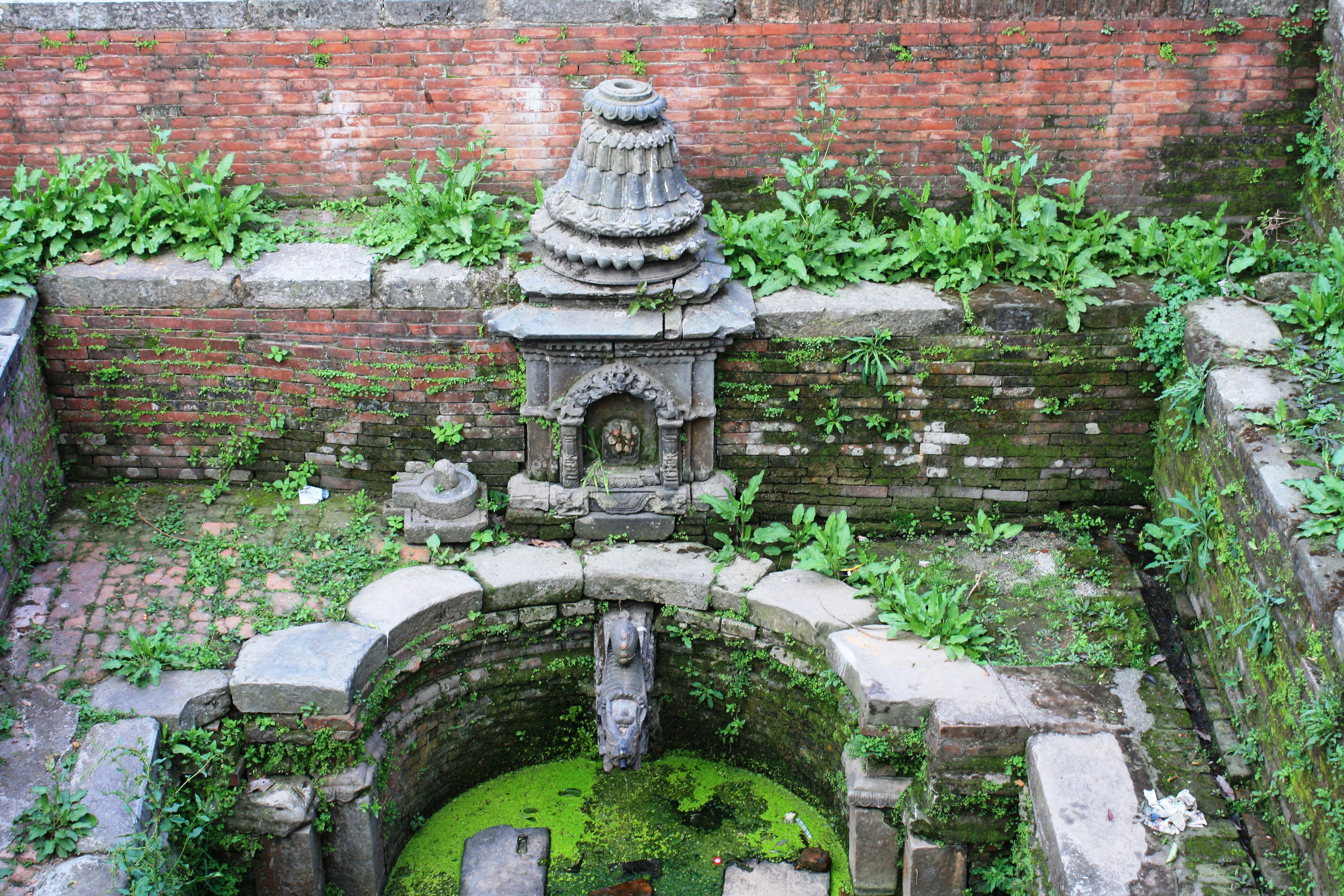 Indrayani Dhunge Dhara, Bhaktapur.